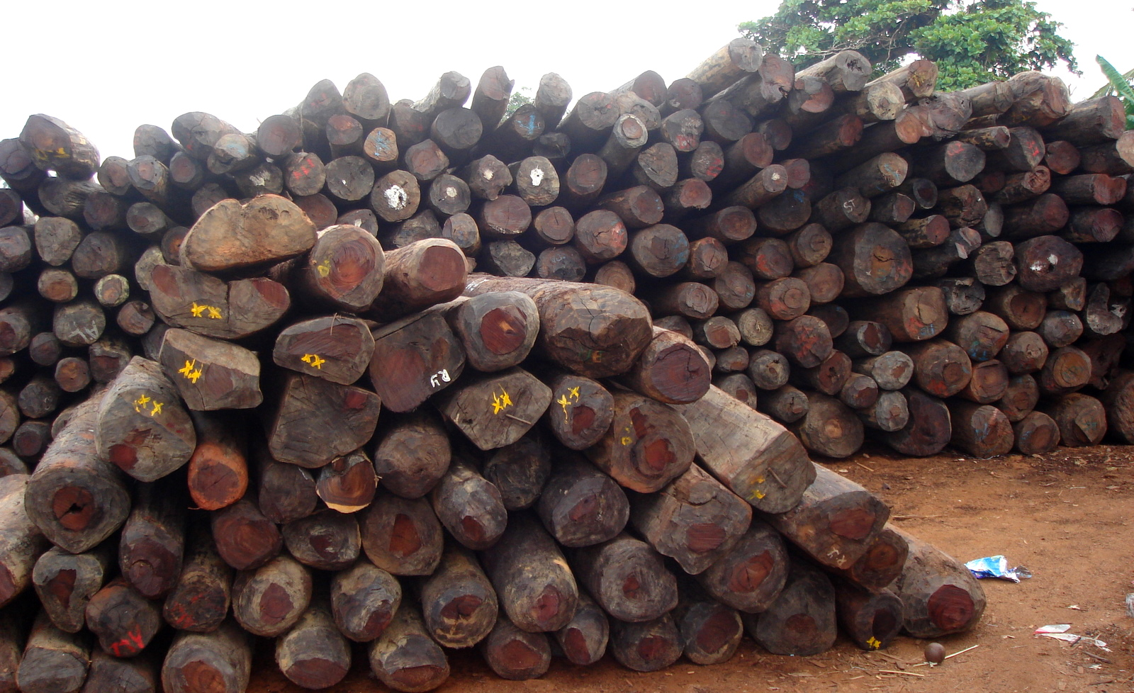 Illegal rosewood stockpiles in Antalaha, Madagascar